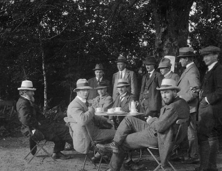 A group photo of some of the founding members of the Danish Bedre Byggeskik movement (Better Building Practices) during the founding meeting in Odense in June 1915